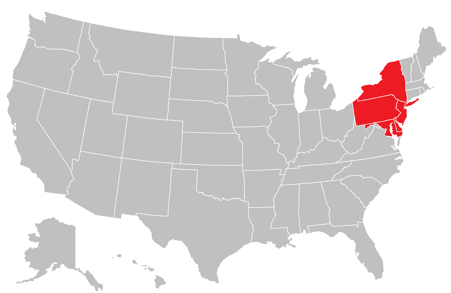 Derived from here, map of states with Middle States Association of Colleges and Schools states highlighted.